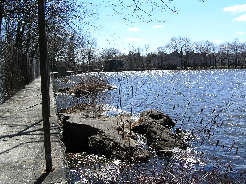 I took this photograph at the dam of the Interlaken Reservoir on a sun drenched day during March.